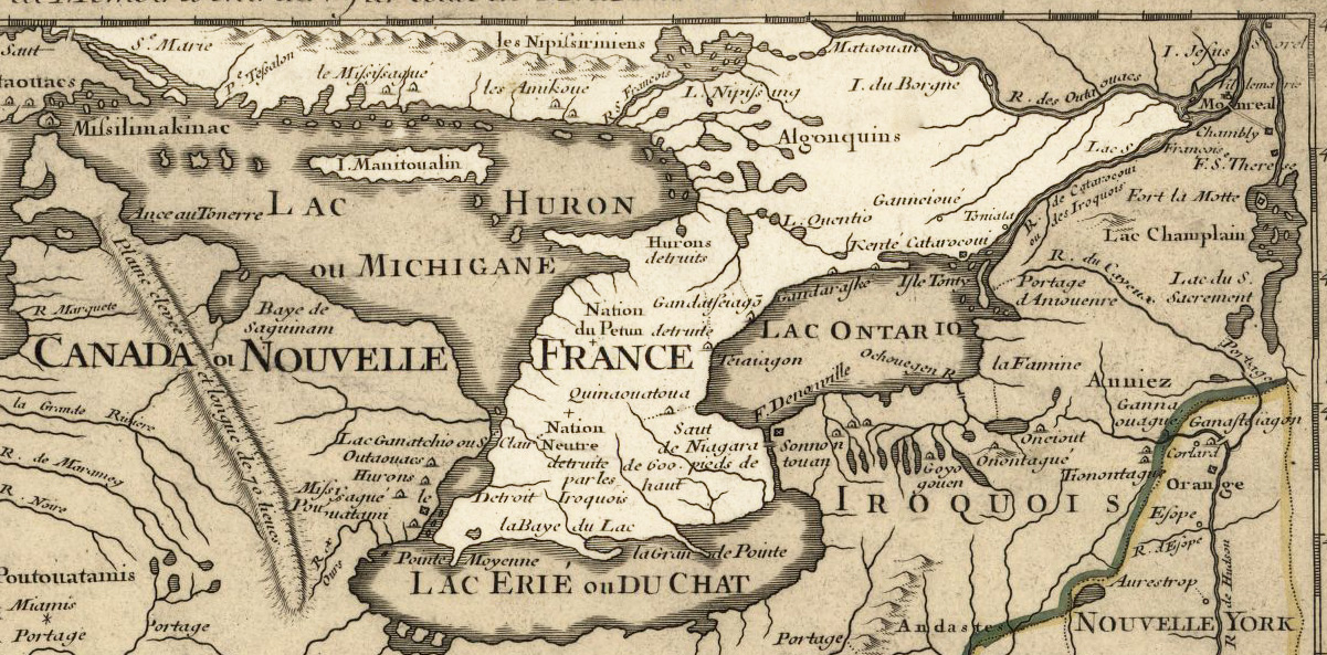 Ontario 1718, approximate modern province area highlighted, from Carte de la Louisiane et du cours du Mississipi by Guillaume de L'Isle. Licensing My contributions cleaning and highlighting are donated to Public Domain. Bill Whittaker (talk) 19:32, 28 July 2009 (UTC) The Library of Congress scan is covered under: The original 1718 work is covered by